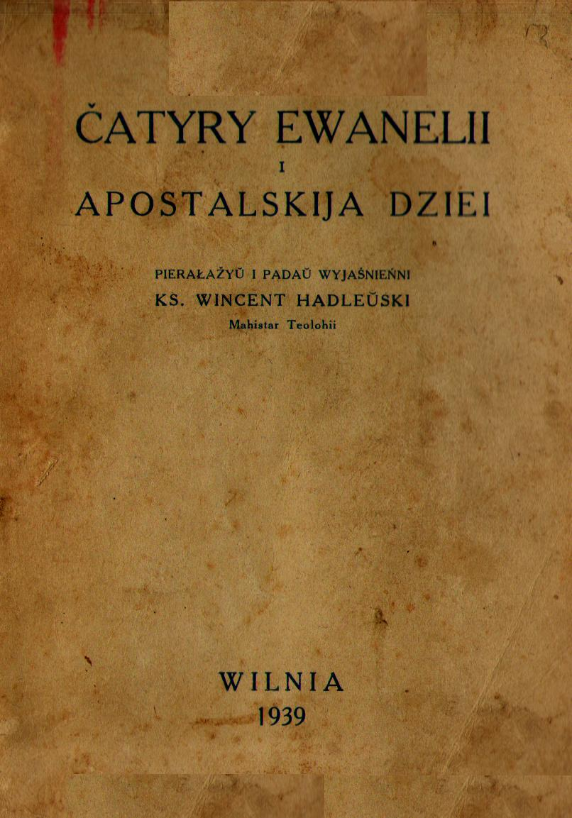 The cover of „Čatyry Ewanelii“ book translated by Vincent Hadleŭski Беларуская (тарашкевіца): Вокладка кнігі «Чатыры Эванэліі» ў перакладзе кс. Вінцэнта Гадлеўскага